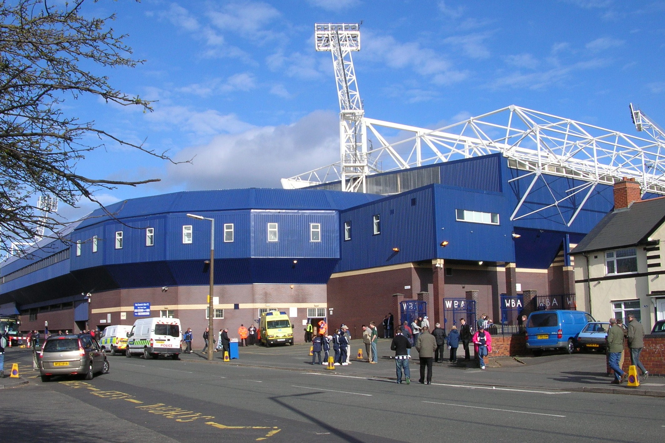 The exterior of The Hawthorns, home of West Bromwich Albion F.C.. The photo is taken from Halford's Lane and shows the Smethwick End and Halford's Lane Stand.